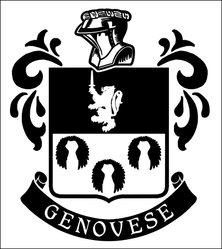 Genovese-Coat-Of-Arms